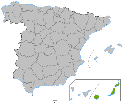 Location of the province of Las Palmas, in Spain. Basado en: ProvPont.jpg Source: Designed by Satesclop. Original picture, designed by Sobreira.